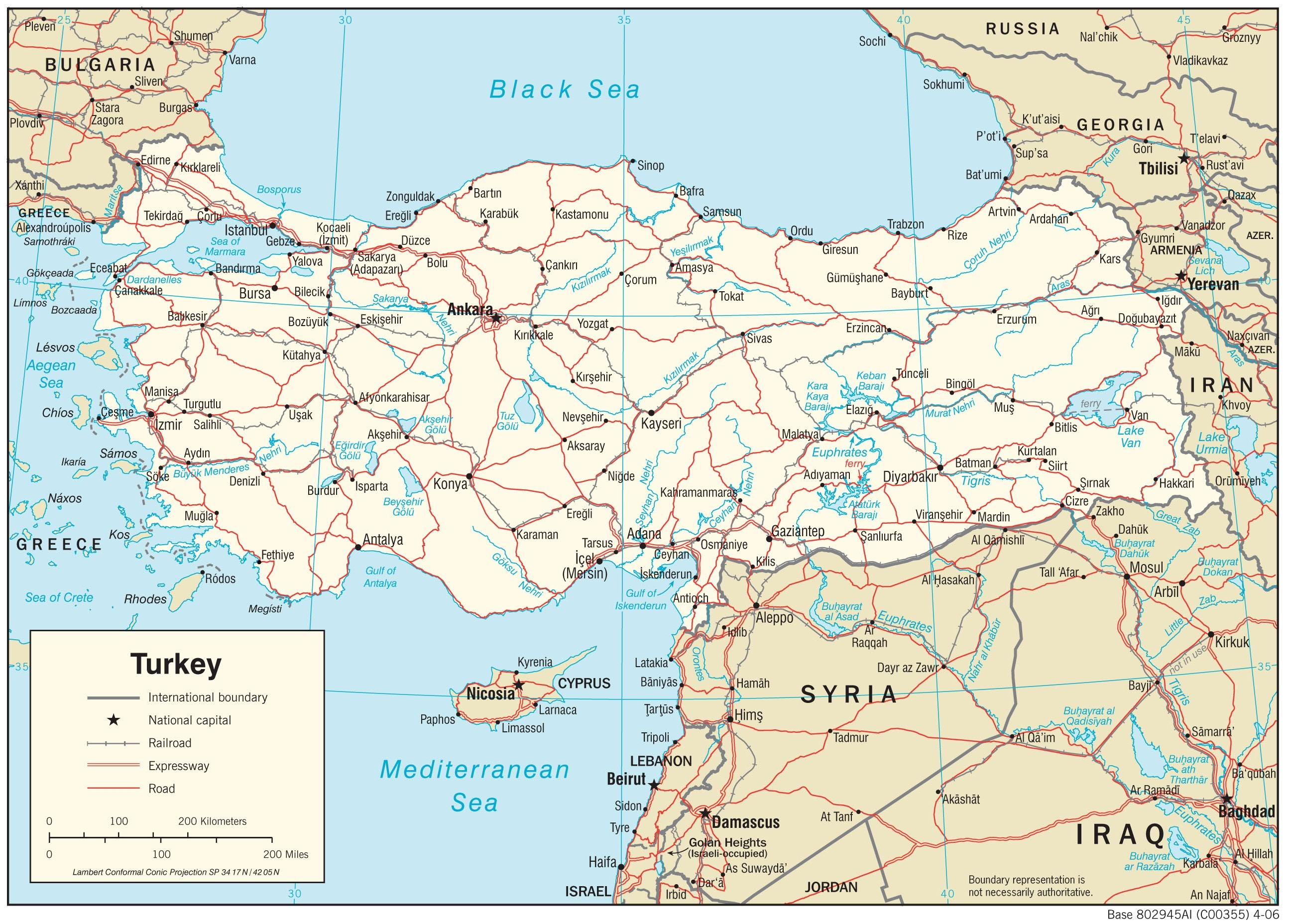 Transport system in Turkey, 2006.